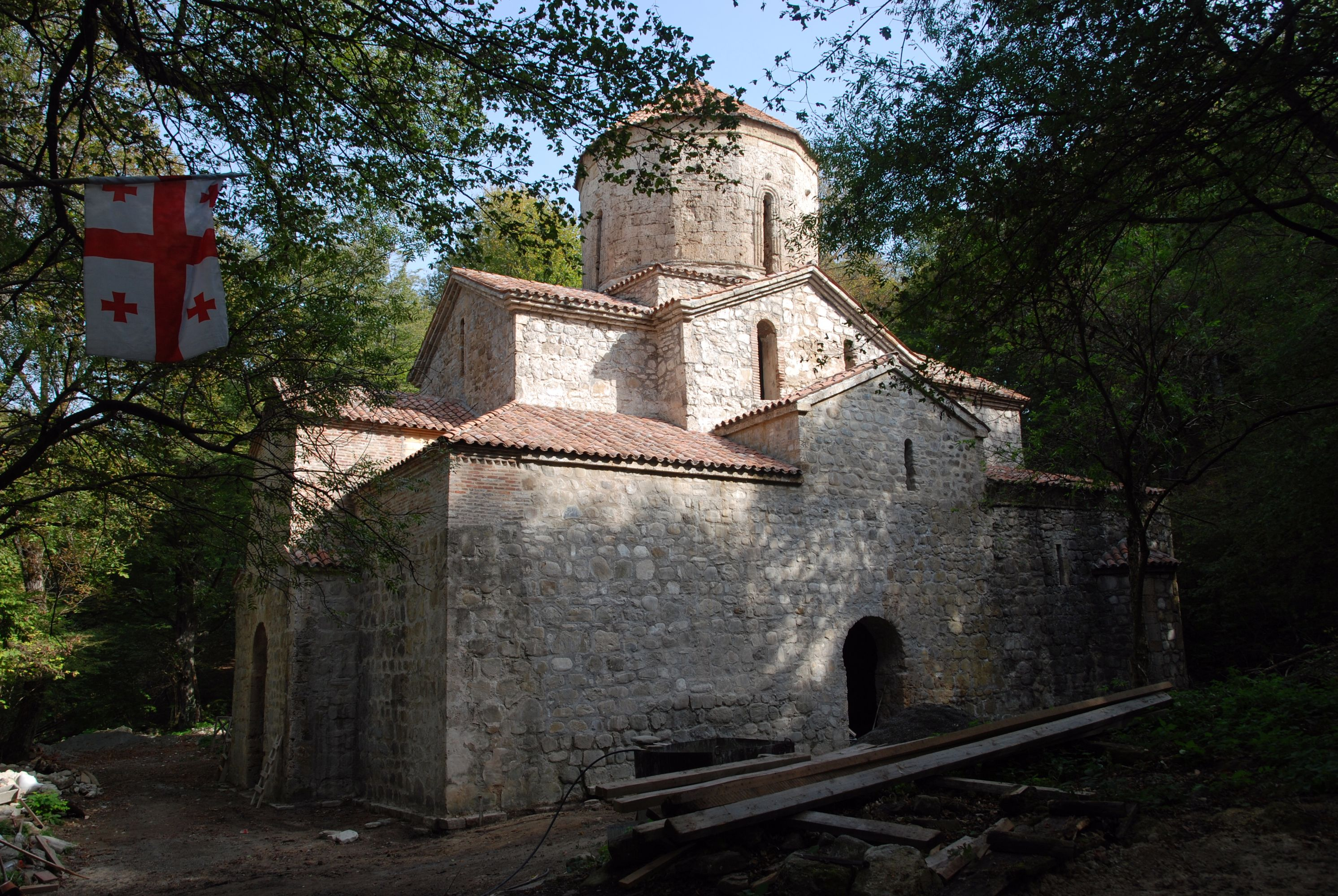 Vachnadziani Kvelatsminda, monastery church near Gurjaani